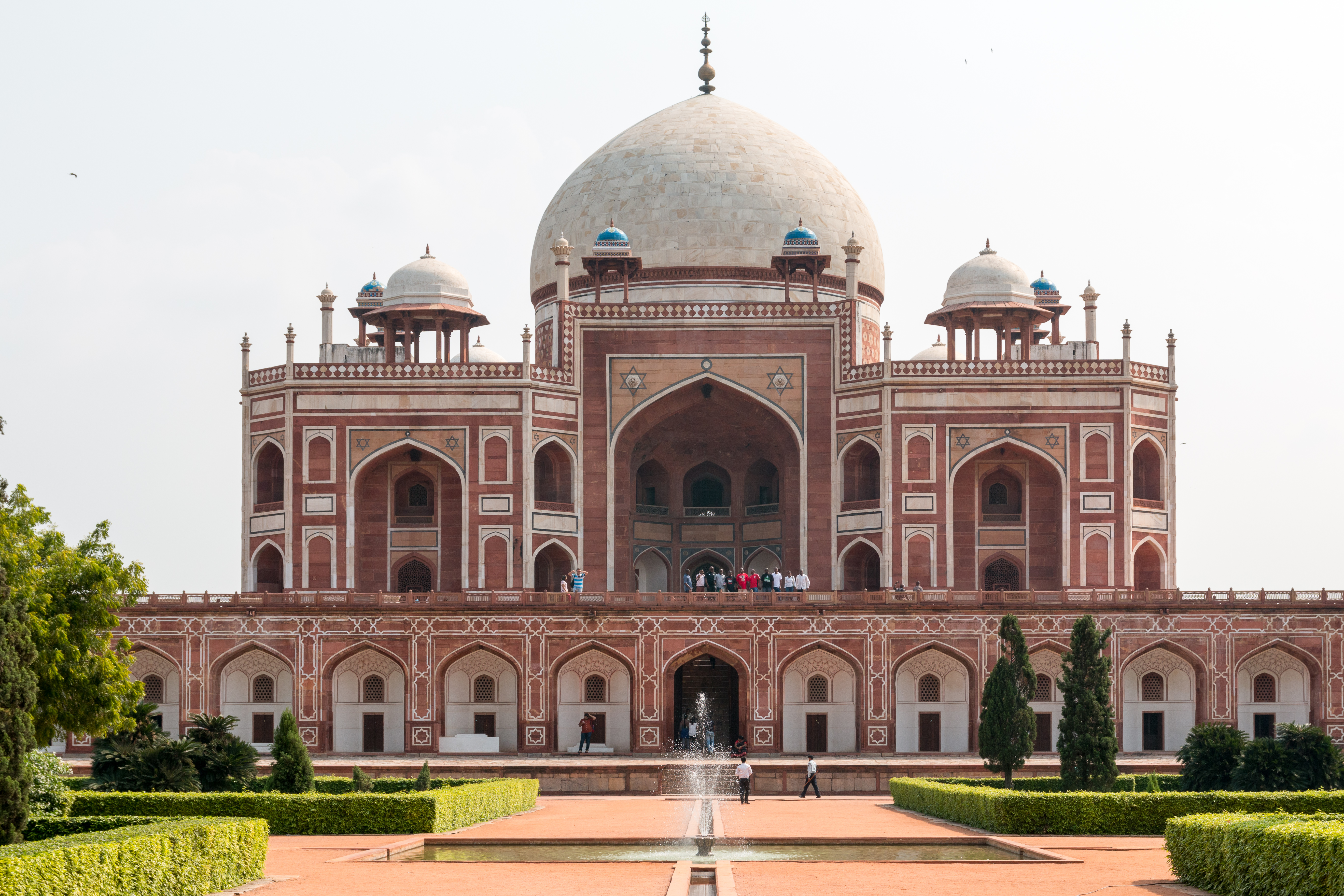 Mausoleum of Humayun.